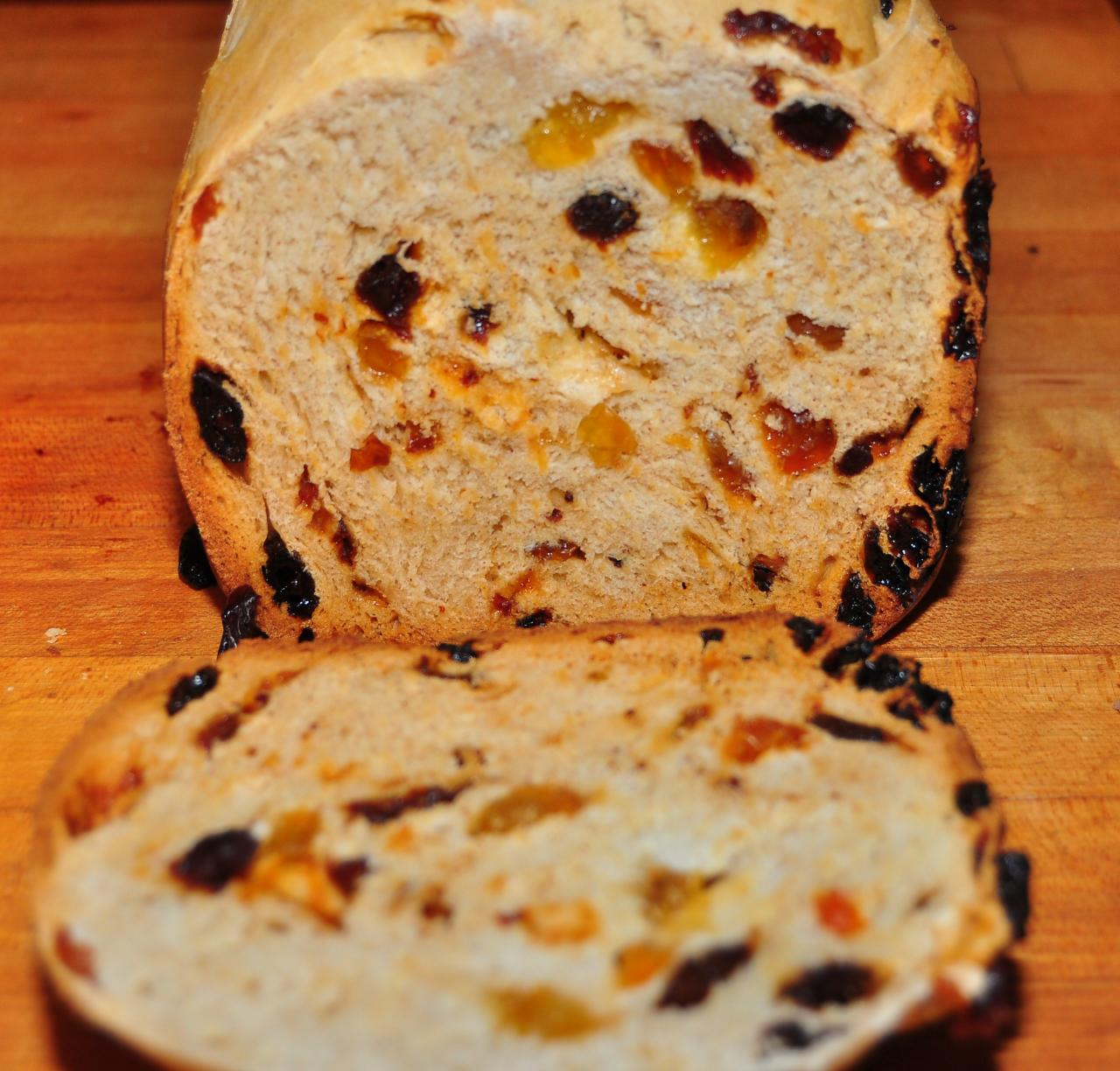 raisin bread